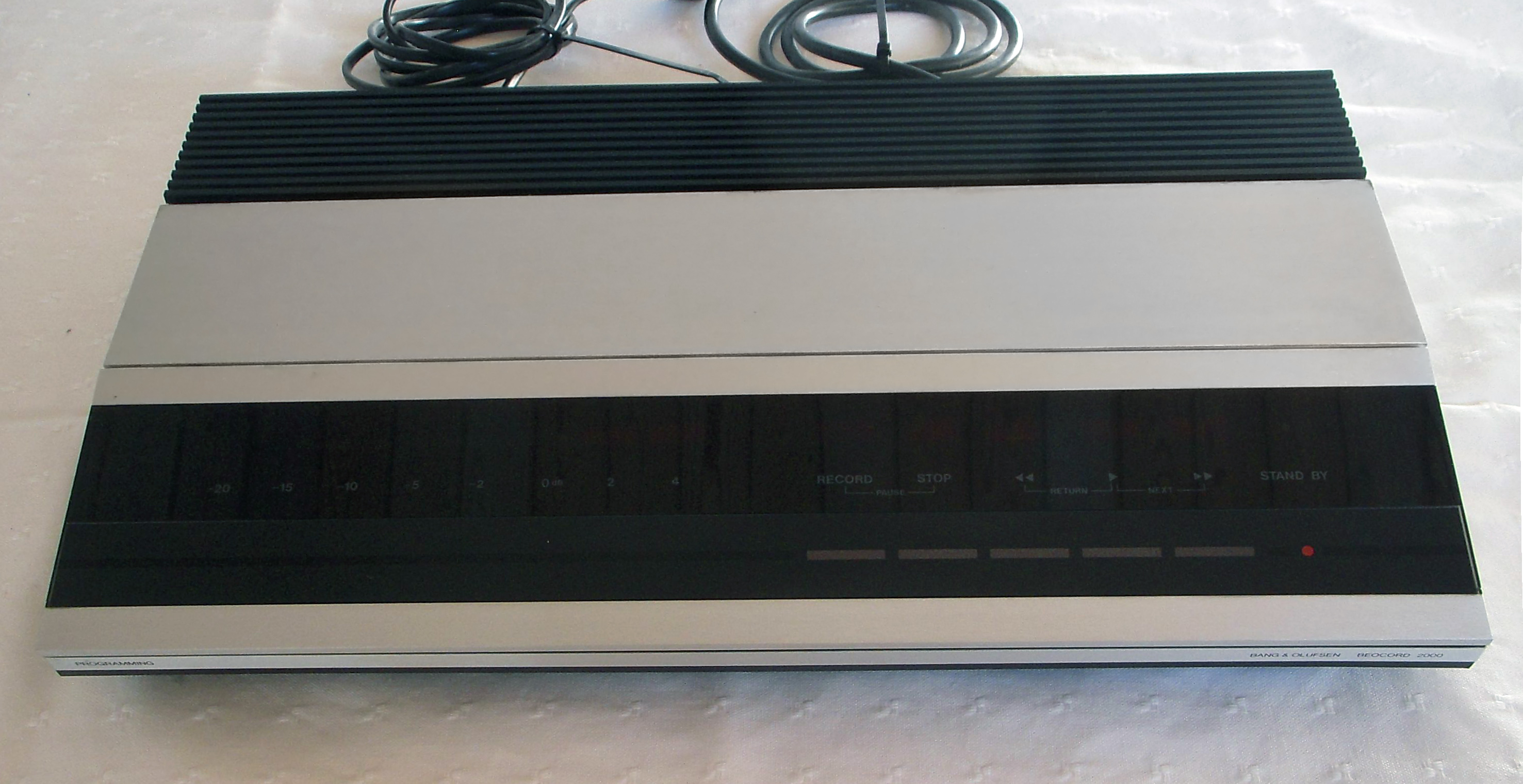 Cassette tape recorder, Beocord 2000, from Bang & Olufsen (B&O).